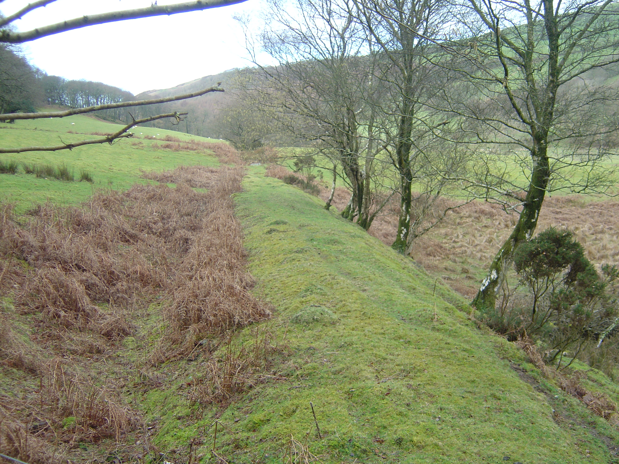 Track-bed of the Plynlimon and Hafan Tramway